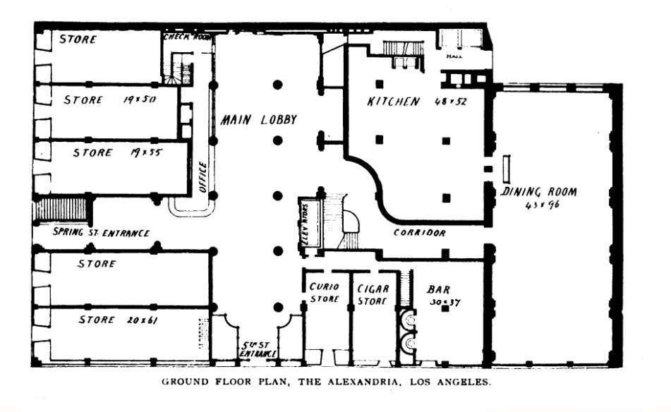 Ground floor plan of Hotel Alexandria, 501 South Spring Street (at Fifth Street), Los Angeles, California. Opened 1906.